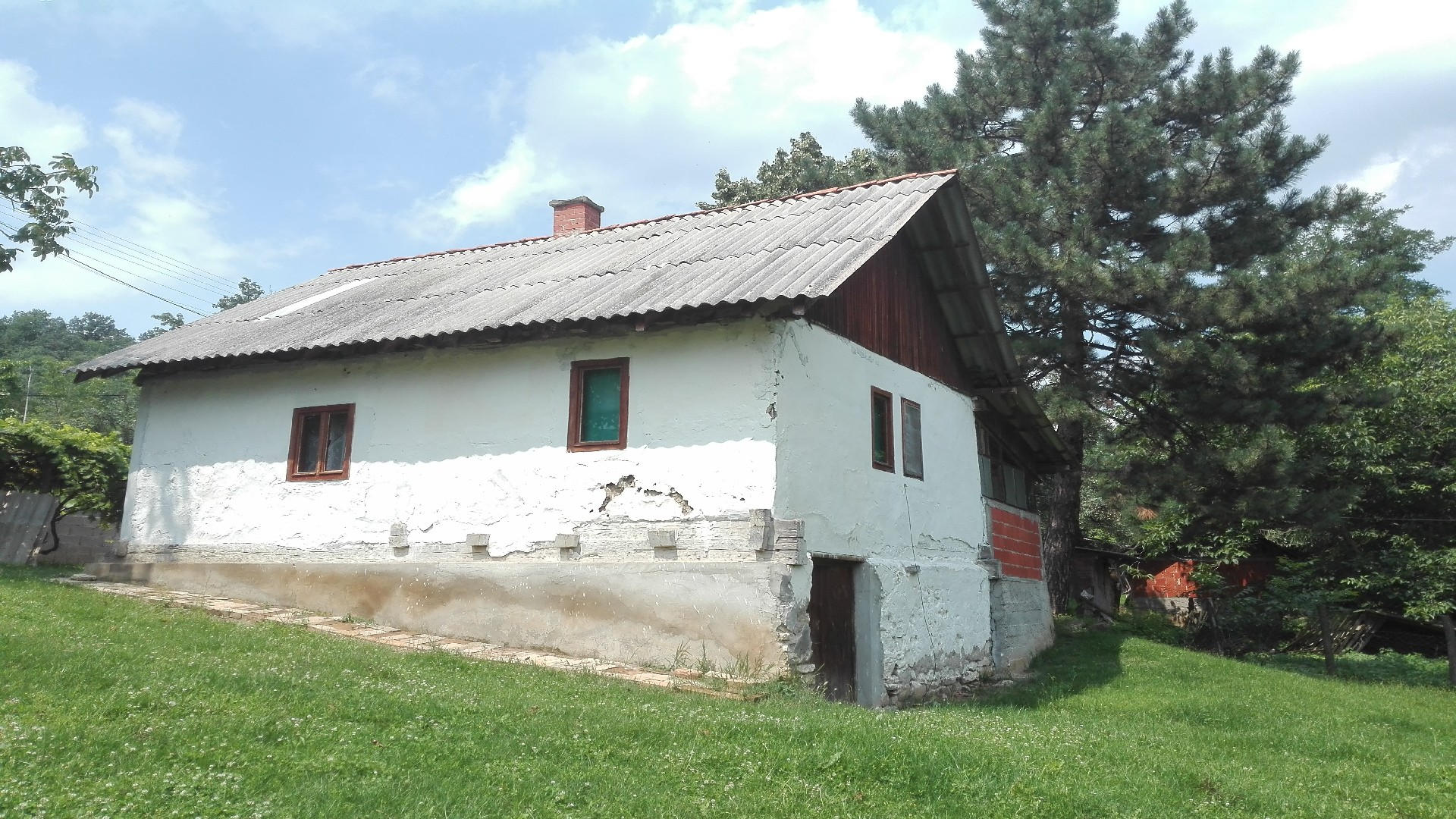 Side view- house of Tanasko Rajić in Stragari